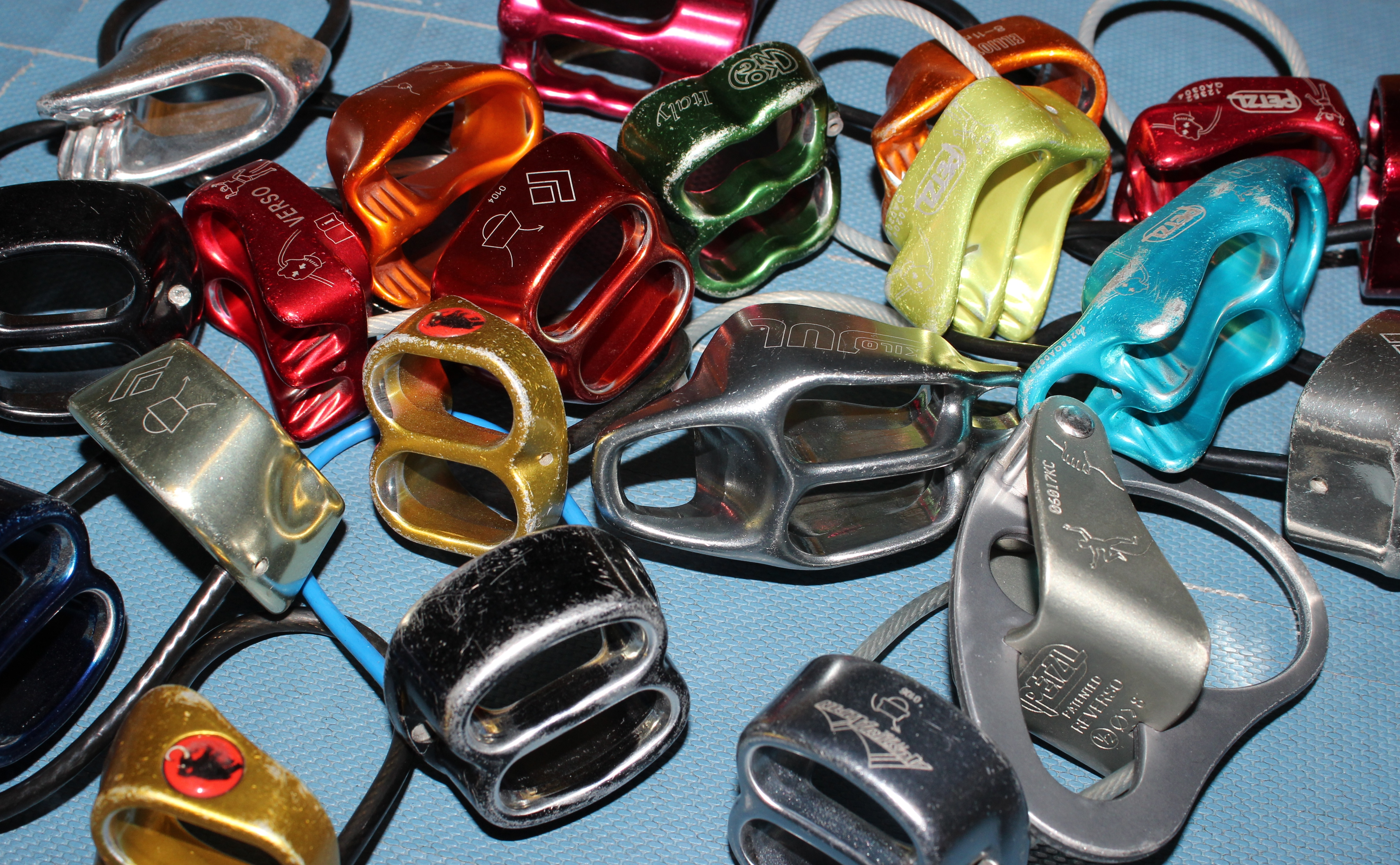 A mix of Tubular belay devices from different manufacturers.